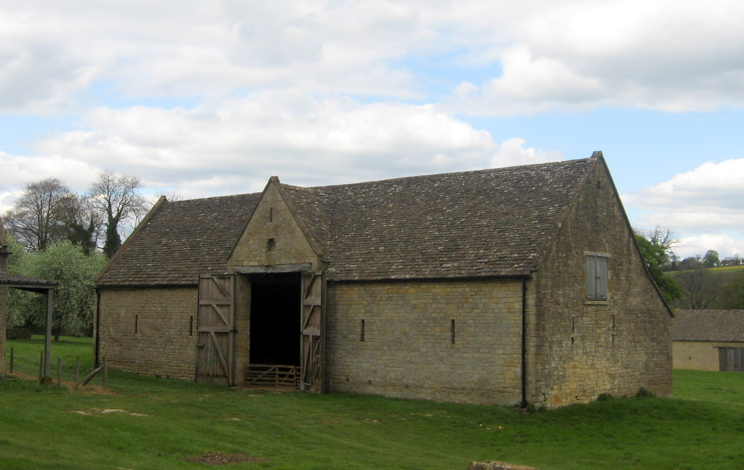 Tithe barn at Guiting Power, Gloucestershire